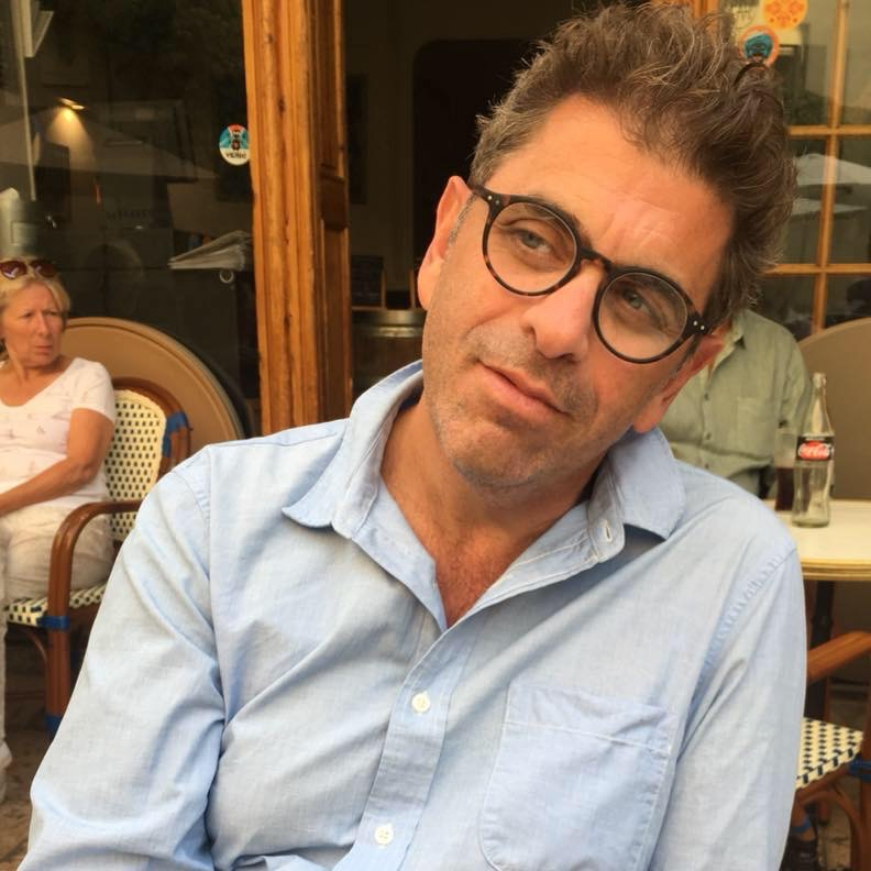 Eugene Jarecki